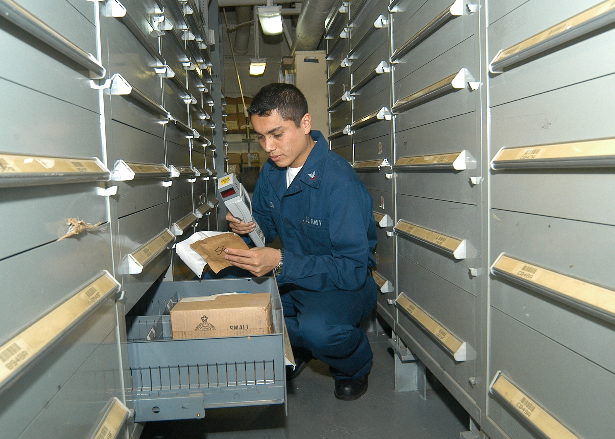 The Arabian Gulf (Apr. 30, 2003) -- Storekeeper 3rd Class Alan Ganoza inventories stock items in Main Supply Issue aboard USS Kearsarge (LHD 3). Kearsarge is deployed conducting missions in support of Operation Iraqi Freedom. Operation Iraqi Freedom is the multi-national coalition effort to liberate the Iraqi people, eliminate Iraq's weapons of mass destruction and end the regime of Saddam Hussein. U.S. Navy photo by Photographer’s Mate 3rd Class Jose E. Ponce. (RELEASED)